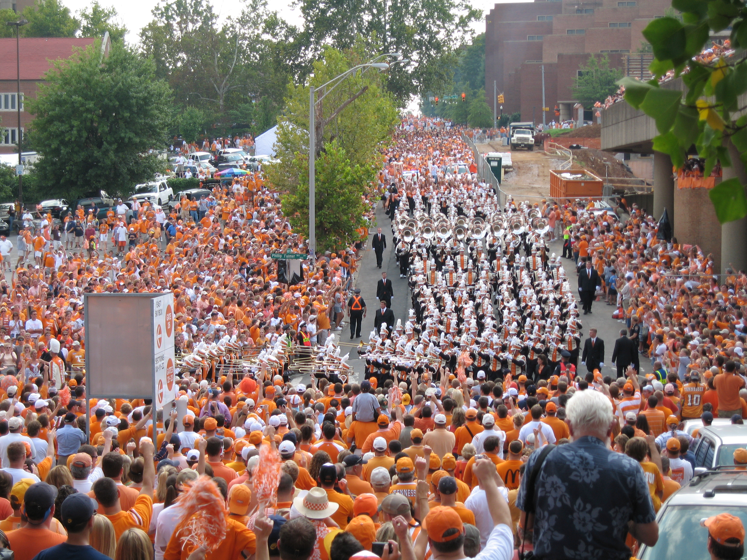 UT Pride of the Southland Marching Band performing the "Salute to the Hill", a longstanding Tennessee Football tradition, before the 2006 UT vs. California game.